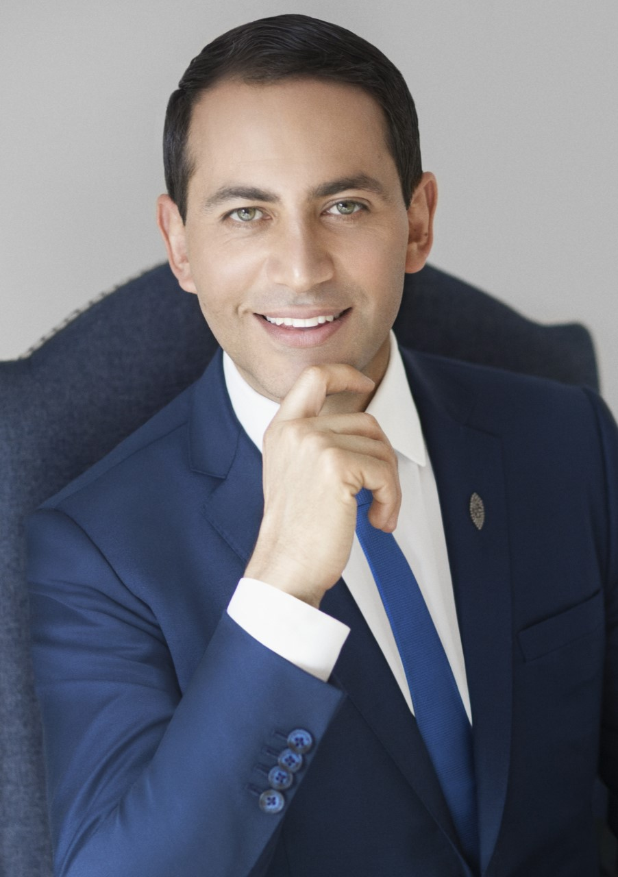 Portrait of Gabriel Rivera Barraza